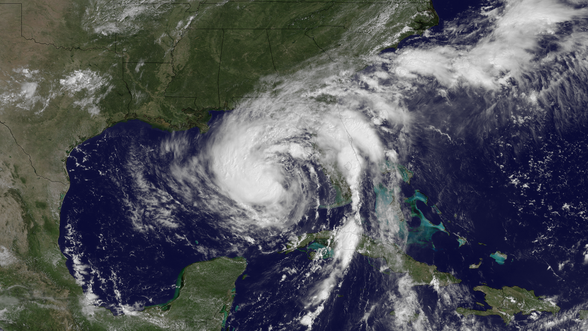 Hurricane Warnings have been posted for east of Morgan City, LA to Destin, FL including metropolitan New Orleans, Lake Pontchartrain and Lake Maurepas. A Hurricane Warning means that hurricane conditions are expected somewhere within the warning area. A Warning is typically issued 36 hours before the anticipated first occurrence of tropical storm force winds, conditions that make outside preparations difficult or dangerous. Preparations to protect life and property should be rushed to completion. This image was taken by GOES East at 1545Z on August 27, 2012.